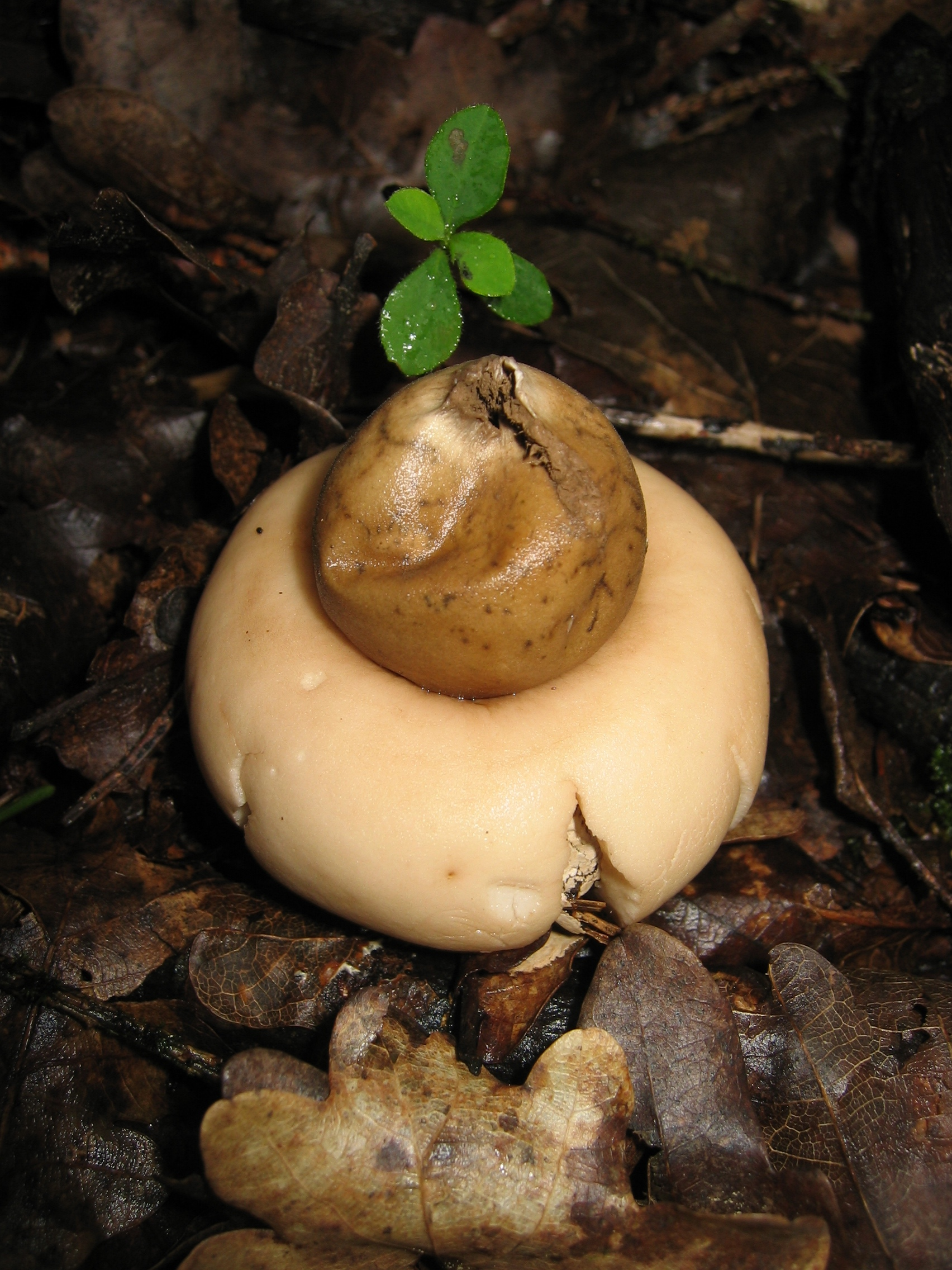 Geastrum fimbriatum, Gunskirchen, Upper Austria, Austria